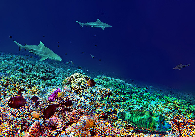 Fakarava Atoll, Passe Sud, UNESCO Biosphere Reserve